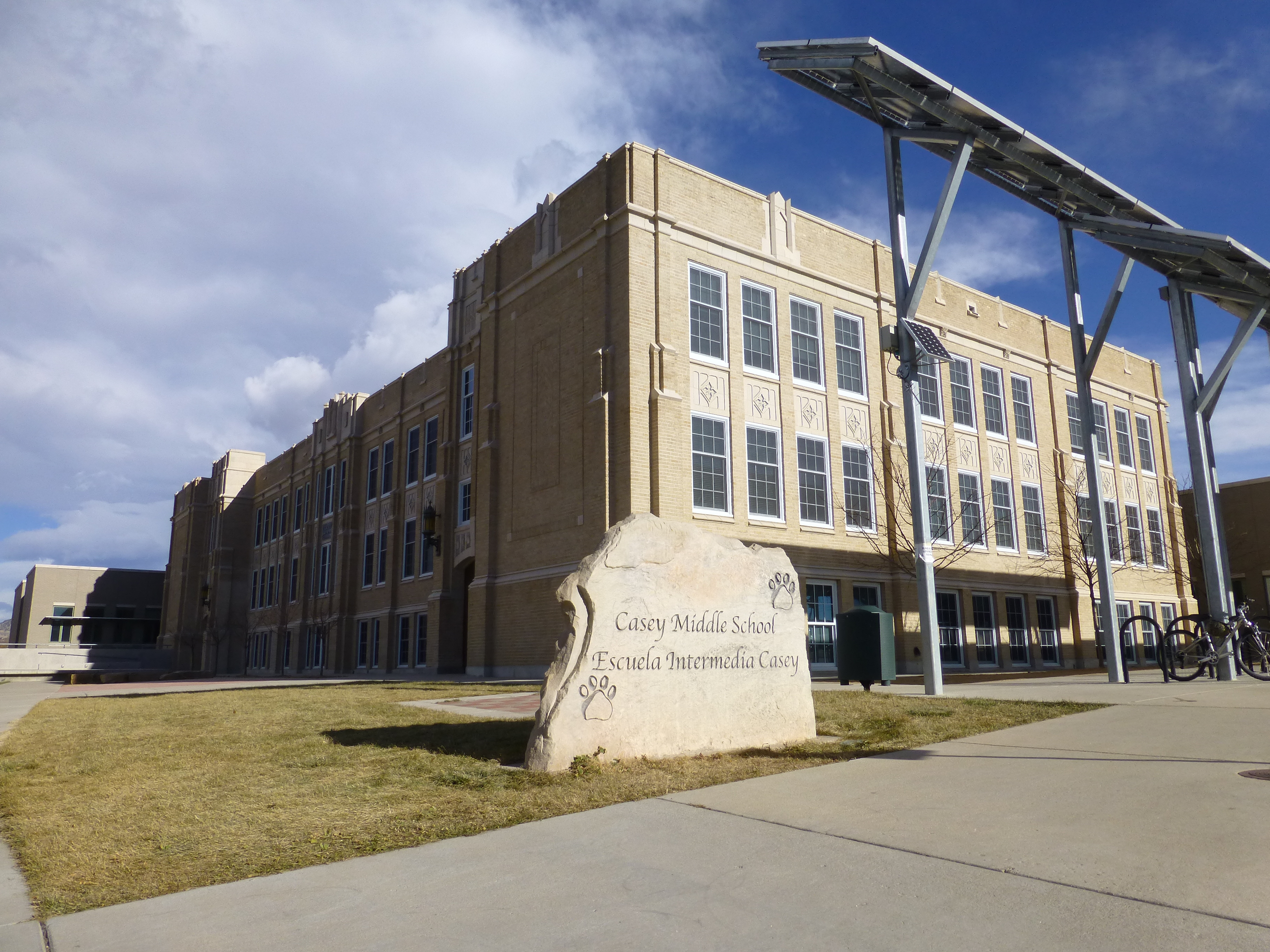 Casey Middle School, Boulder Colorado